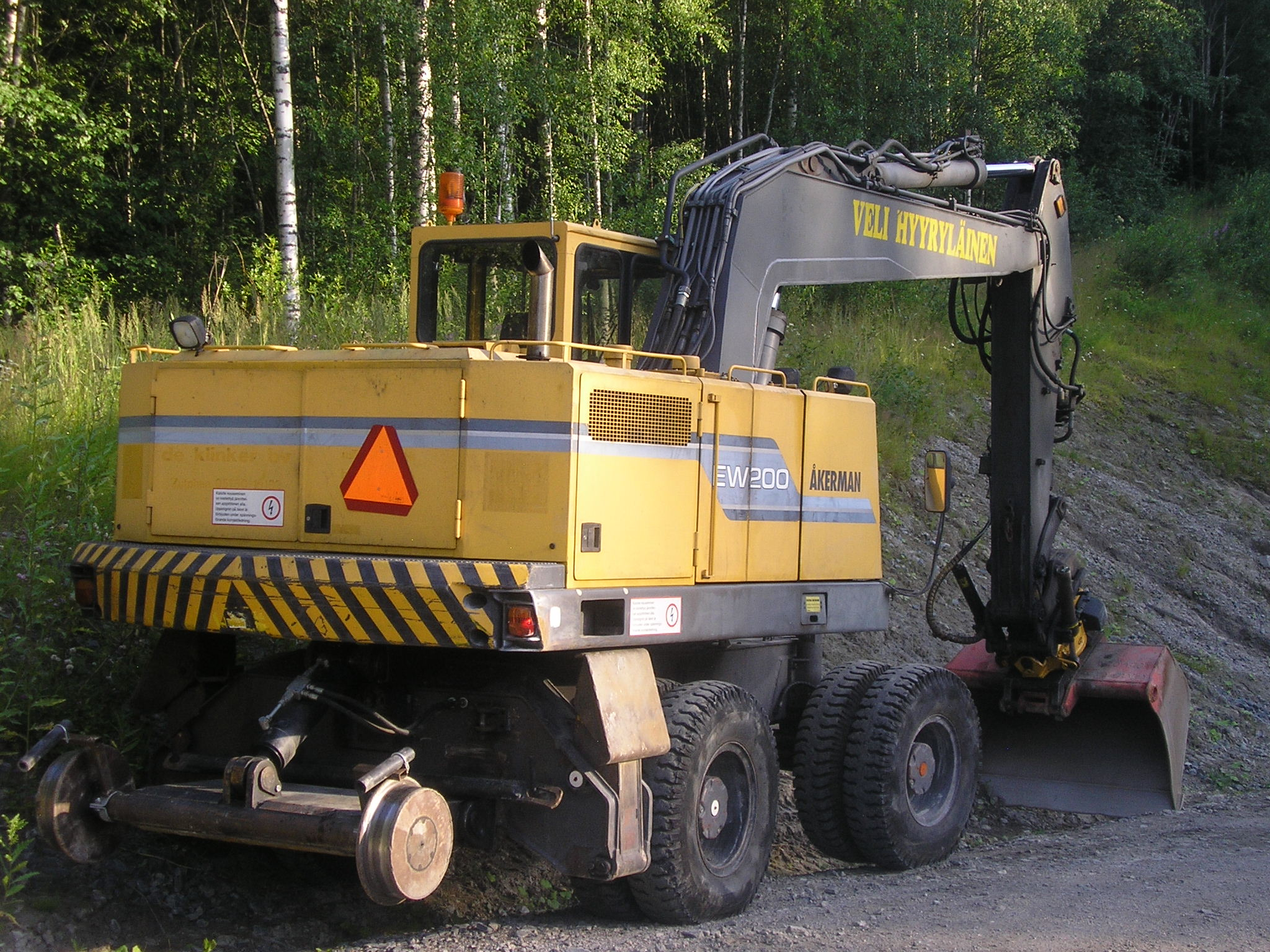 Åkerman EW200 road-rail excavator of Veli Hyyryläinen Oy in Muurame, Finland.